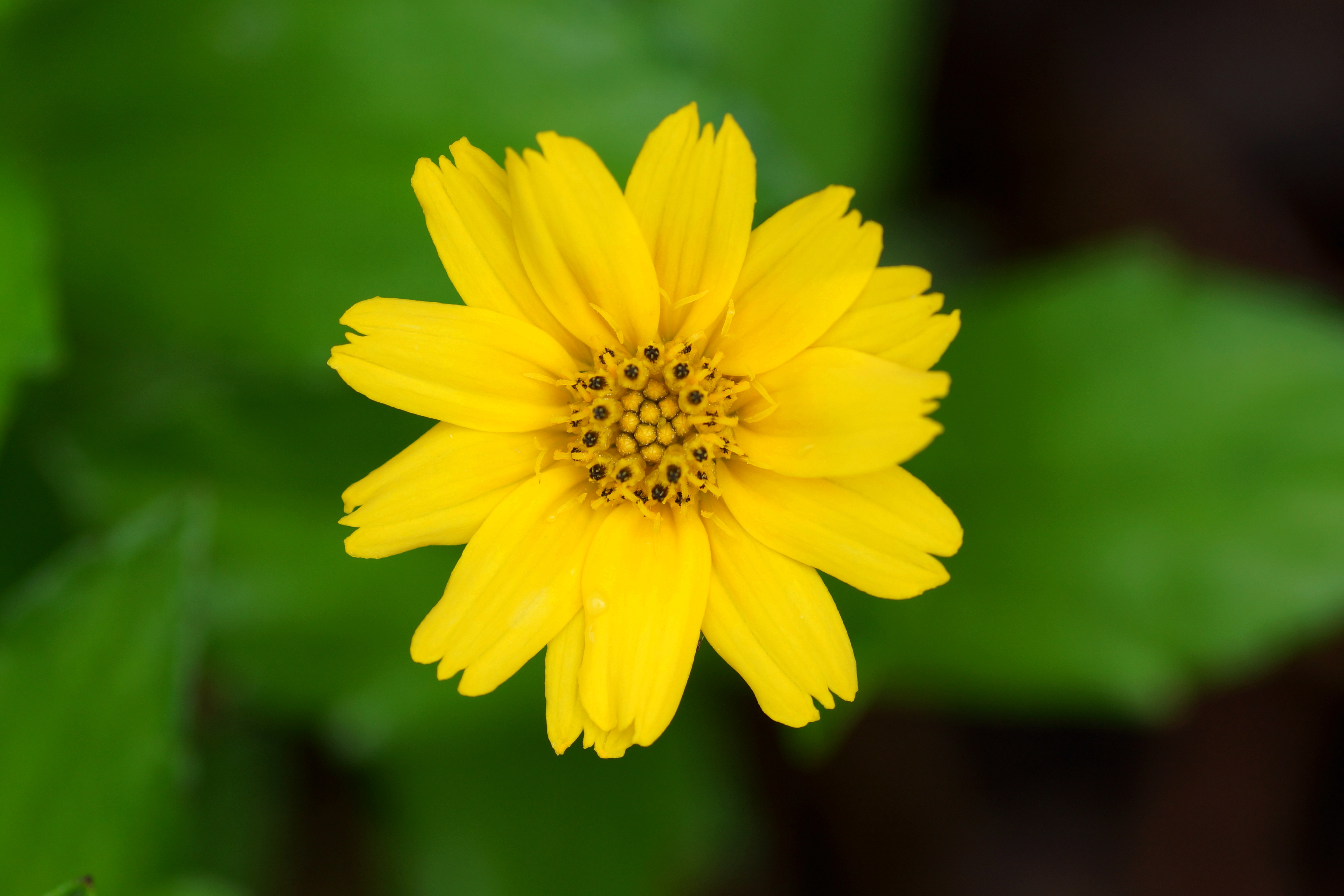 Chinese Wedelia (Sphagneticola calendulacea)